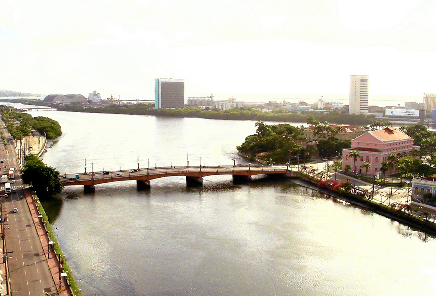 Princesa Isabel bridge in Recife, Brazil